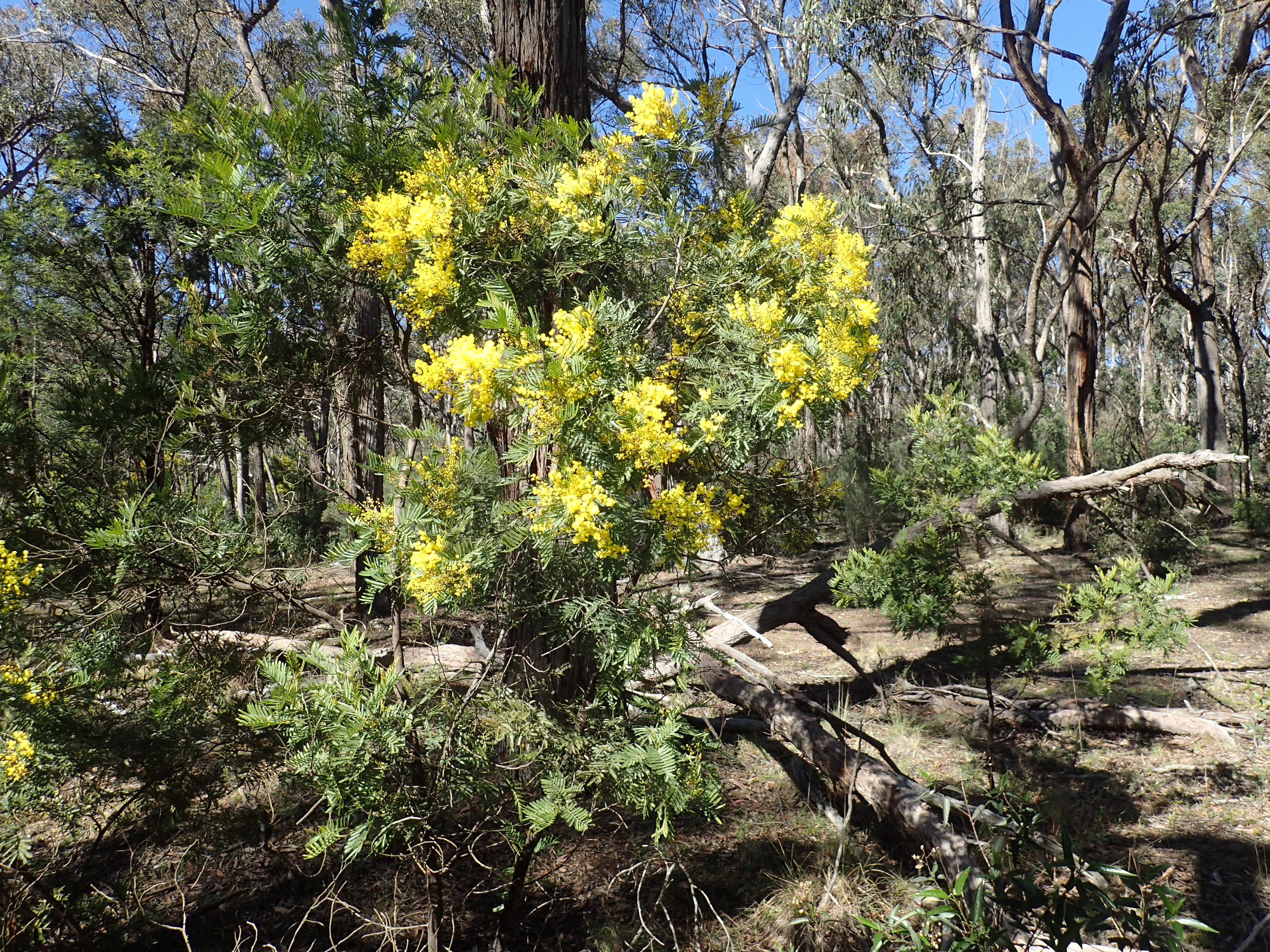 Acacia filicifolia growing in the Imbota Nature Reserve near Armidale